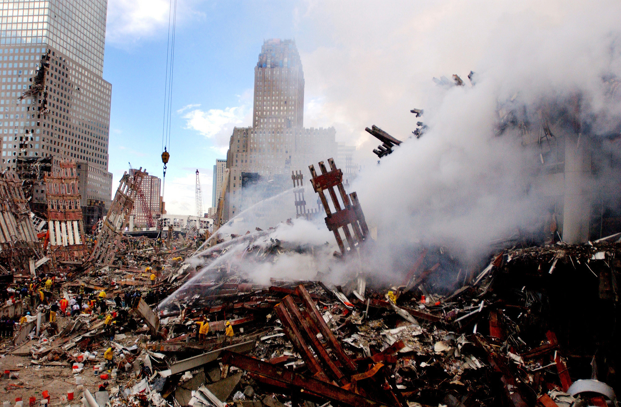 Fires still burn amidst the rubble and debris of the World Trade Centers in New York City in the area known as Ground Zero two days after the 9/11 terrorists attacks, 9/13/2001; National Archives (accessed 9/3/2016) Camera Operator: PH2 Jim Watson, USN Series: Combined Military Service Digital Photographic Files, 1982 - 2007 Record Group 330: Records of the Office of the Secretary of Defense, 1921 - 2008